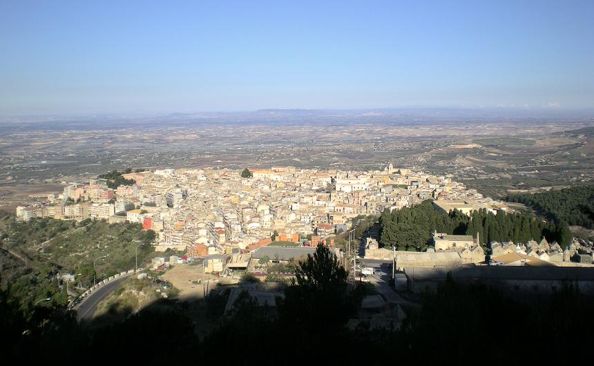 The town of Chiaramonte Gulfi in Sicily also called 'Balcony of Sicily' with great views.